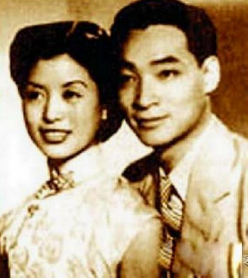 Writer Feng Yidai and wife Zheng Anna